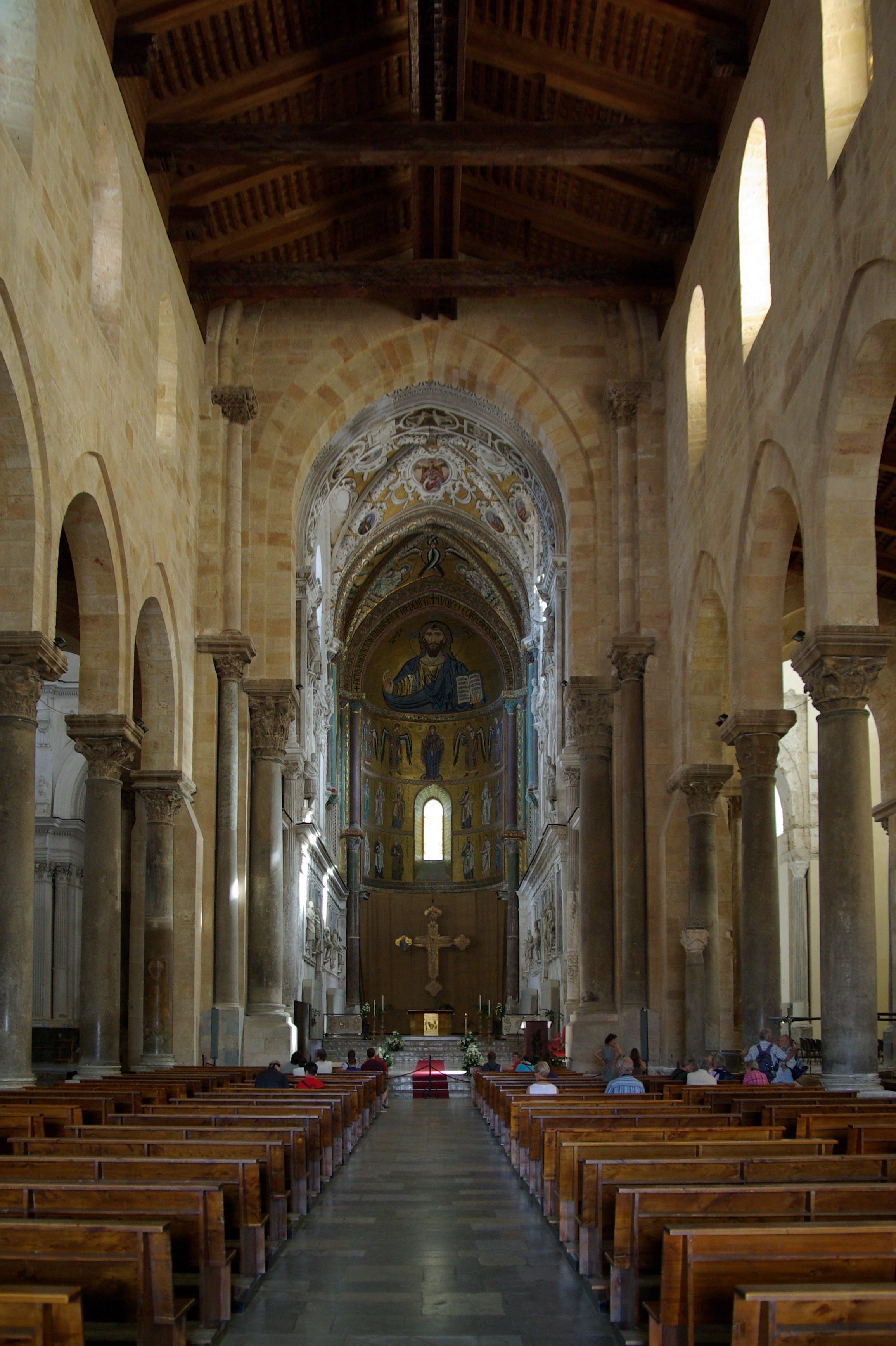 Italy, Sicily, Cefalù, cathedral